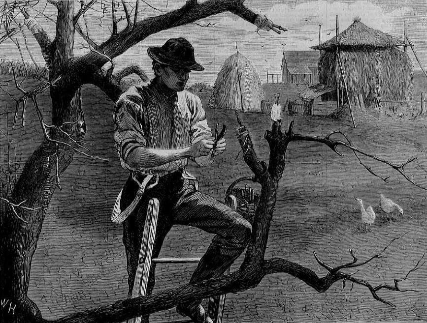 Spring Farm Work -- Grafting, a wood engraving from a drawing by Winslow Homer, published in Harper's Weekly, April 30, 1870.